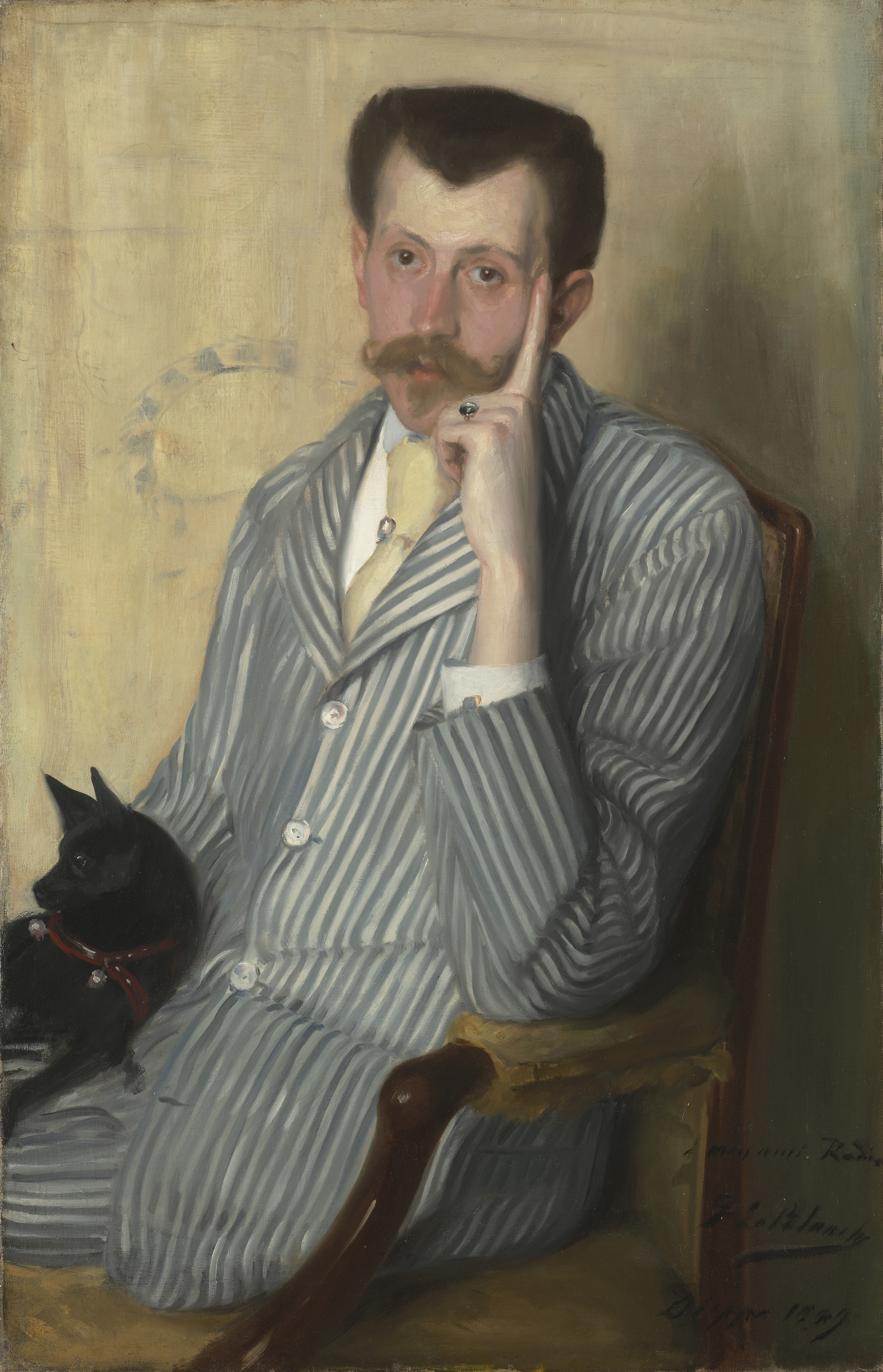 During the summer of 1889, Blanche painted several portraits of George Porto-Riche, a writer and friend who was visiting him in Dieppe. Blanche wrote: "If and when my father could at last get away from Paris and take a couple of days holiday.. we were awash with visitors.. Alexandre Dumas in his reefer jacket, Porto-Riche, Carpeaux, Antoine Vollon.. Charles Ephrussi.. and sometimes Claude Monet." The work here was dedicated to another sitter and friend, the sculpture Auguste Rodin.